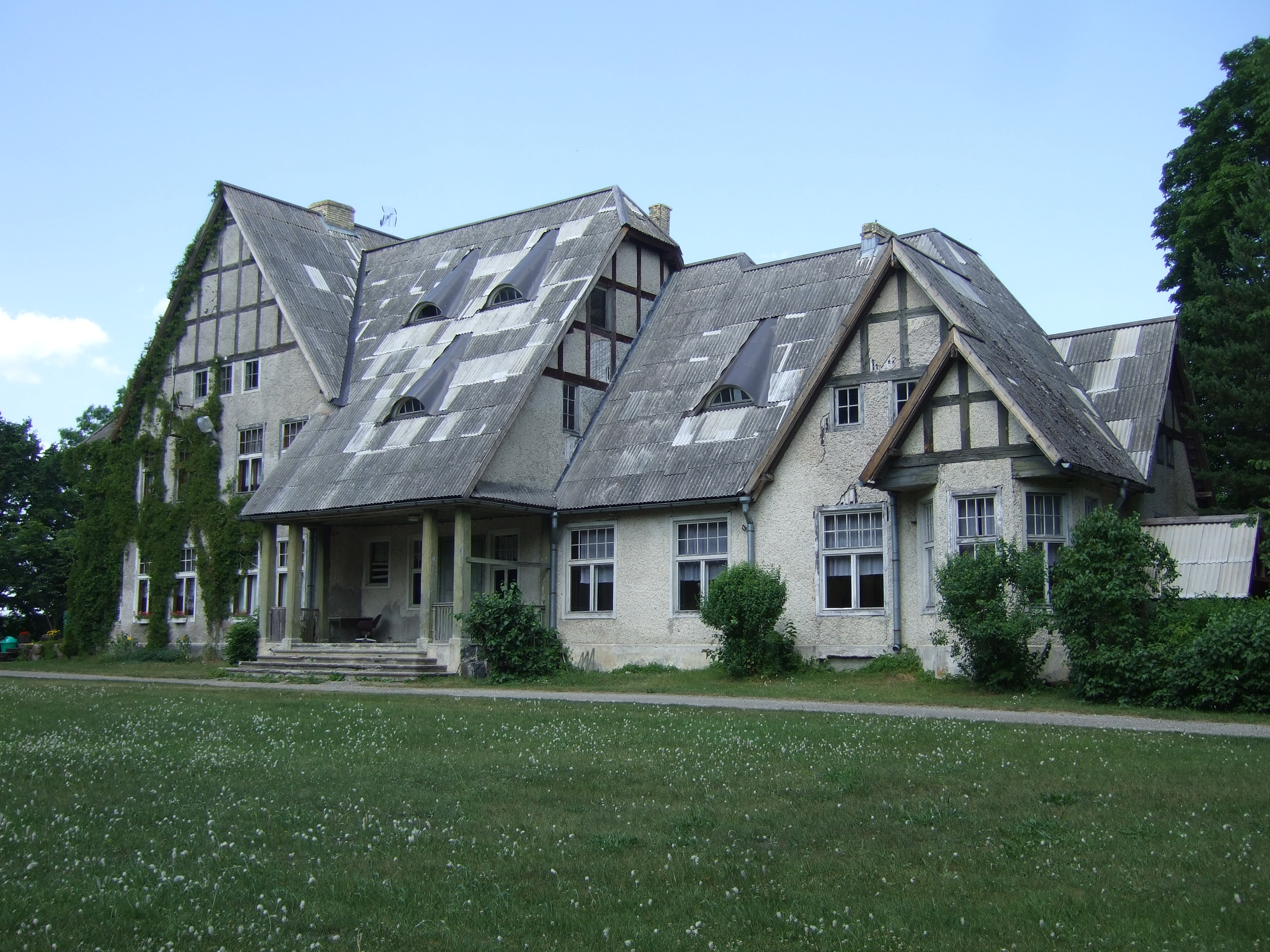 Illuste manorhouse in Estonia